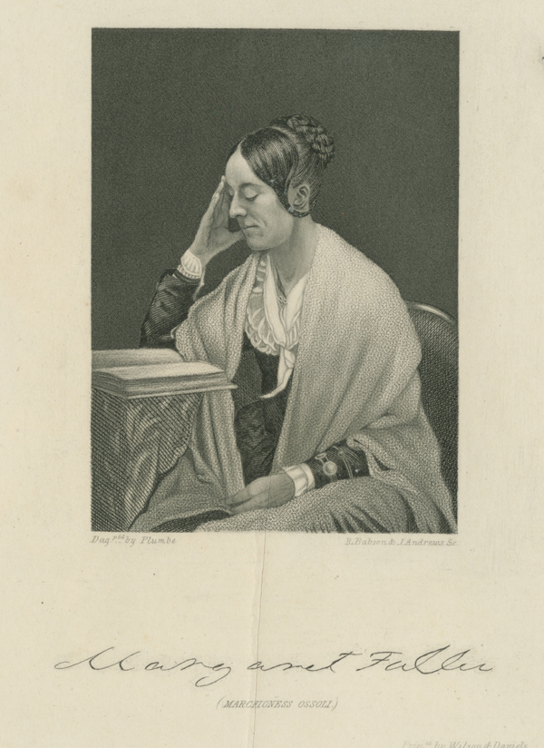 Engraved portrait of American writer and editor Sarah Margaret Fuller (1810-1850). From the frontispiece for her book Woman in the Nineteenth Century (1855).